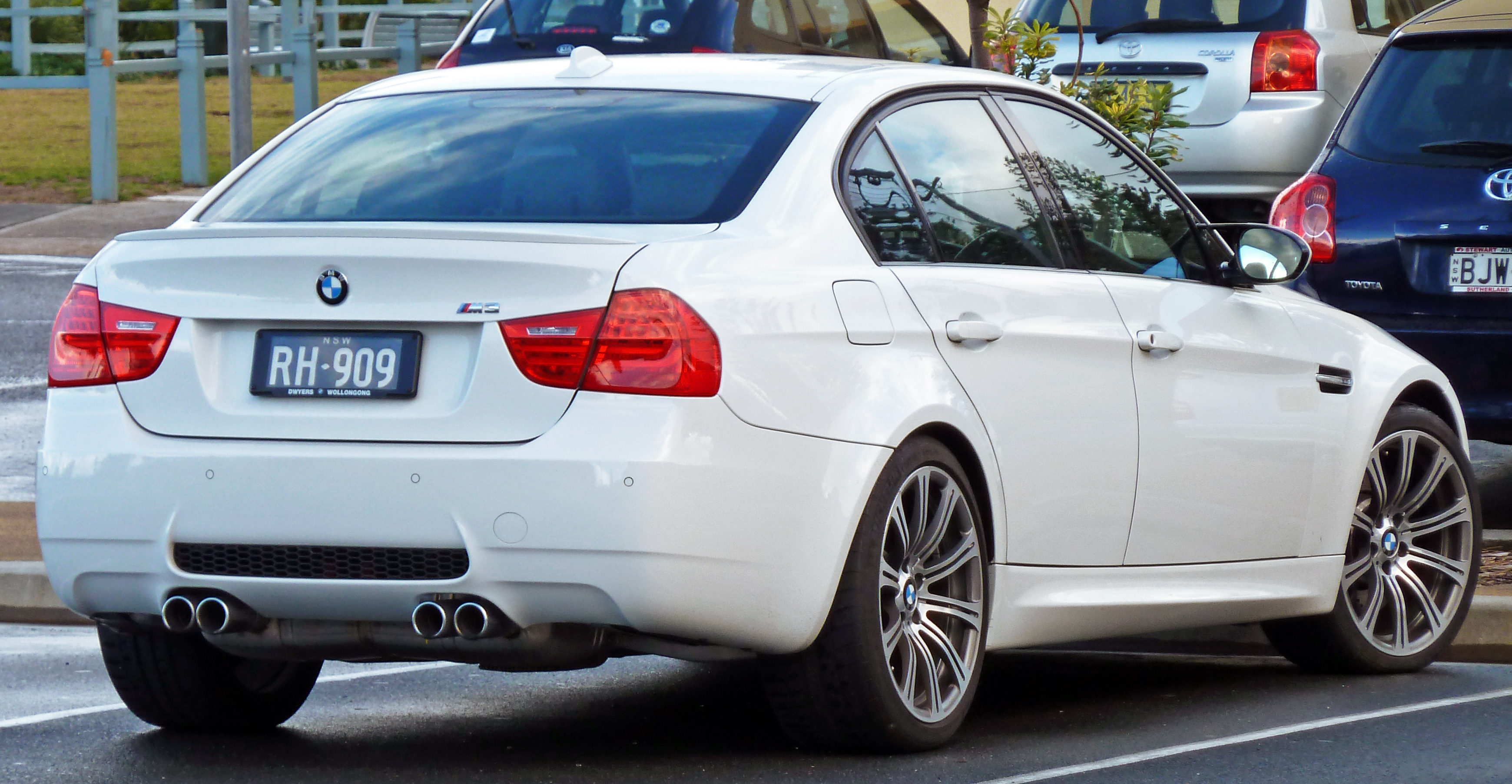 2008–2010 BMW M3 (E90) sedan. Photographed in Cronulla, New South Wales, Australia.